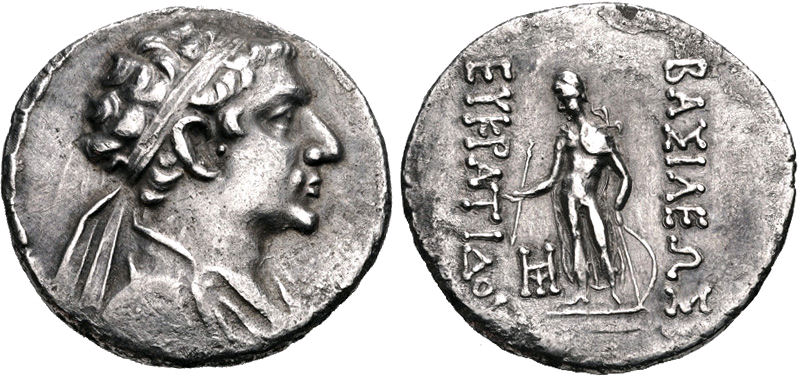 Eukratides II young